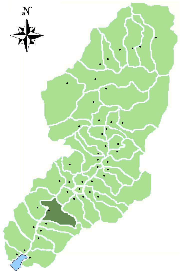 Map of the Comune di Darfo Boario Terme, Valle Camonica